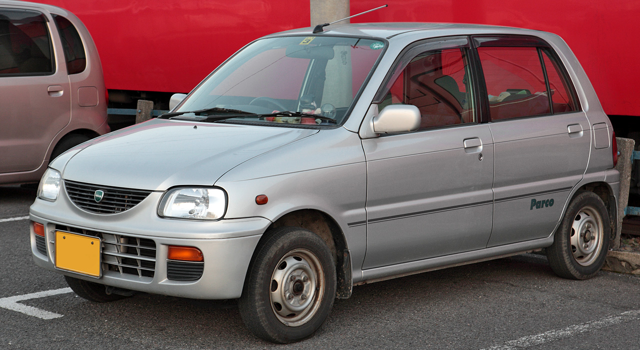 4th generation Daihatsu Mira 660 Parco ( L500S, later )